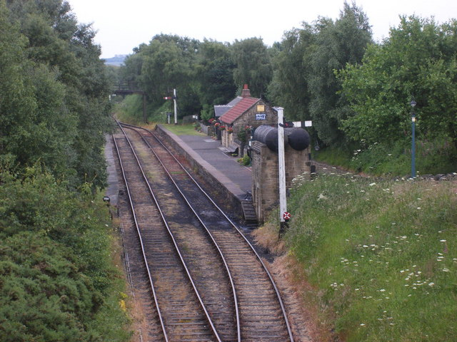 Andrews House Station on the Tanfield Railway in County Durham